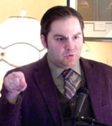 Sean McMeekin (an American historian) presentation at New York Military Affairs Symposium